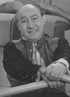 Casimiro Ros- actor